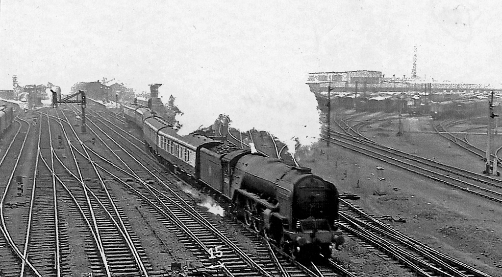 Down express leaving Doncaster. View southward, towards Doncaster Station and the South on the ECML, also Cleethorpes and Sheffield on the ex-Great Central and Lincoln etc. on the Joint Line. Over to the right are sidings of the great ex-Great Northern Locomotive Works. The train is the 08.20 King's Cross - York, headed by A2/3 Pacific No. 60524 'Herringbone'